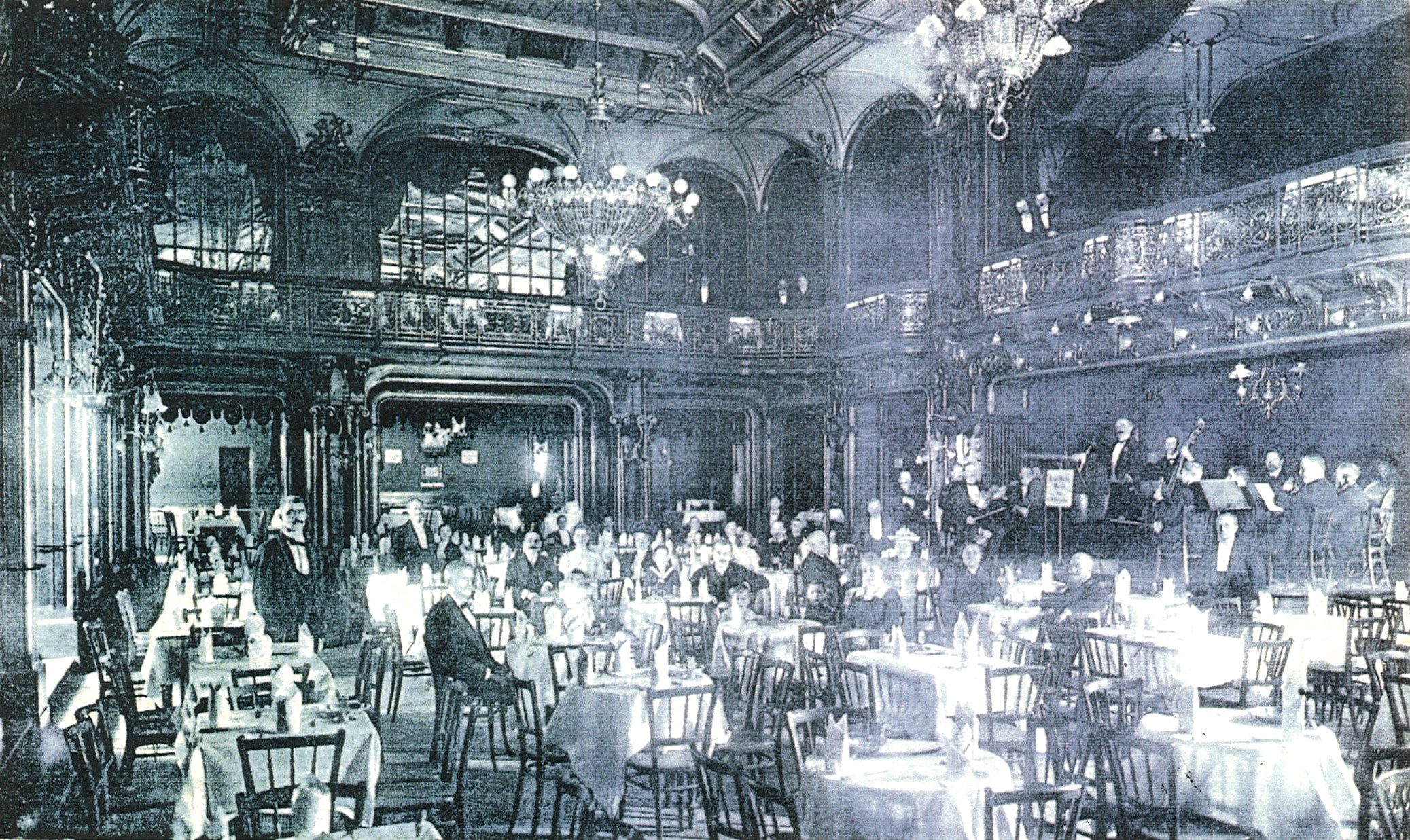 big hall St Annahof, Annagasse 3a, Wien / Vienna